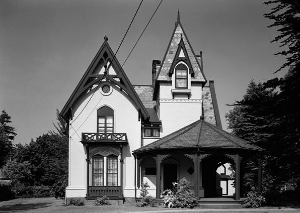 Colonel Converse House, 185 Washington Street, Norwich (New London County, Connecticut) cropped This file comes from the Historic American Buildings Survey (HABS), Historic American Engineering Record (HAER) or Historic American Landscapes Survey (HALS). These are programs of the National Park Service established for the purpose of documenting historic places. Records consist of measured drawings, archival photographs, and written reports. When reusing please credit: Library of Congress, Prints & Photographs Division, CONN,6-NOR,13-2 This tag does not indicate the copyright status of the attached work. A normal copyright tag is still required. See Commons:Licensing for more information. This work is in the public domain in the United States because it is a work prepared by an officer or employee of the United States Government as part of that person’s official duties under the terms of Title 17, Chapter 1, Section 105 of the US Code. See Copyright. Note: This only applies to original works of the Federal Government and not to the work of any individual U.S. state, territory, commonwealth, county, municipality, or any other subdivision. This template also does not apply to postage stamp designs published by the United States Postal Service since 1978. (See § 313.6(C)(1) of Compendium of U.S. Copyright Office Practices). It also does not apply to certain US coins; see The US Mint Terms of Use. This file has been identified as being free of known restrictions under copyright law, including all related and neighboring rights. Object location41° 32′ 01″ N, 72° 04′ 55″ W